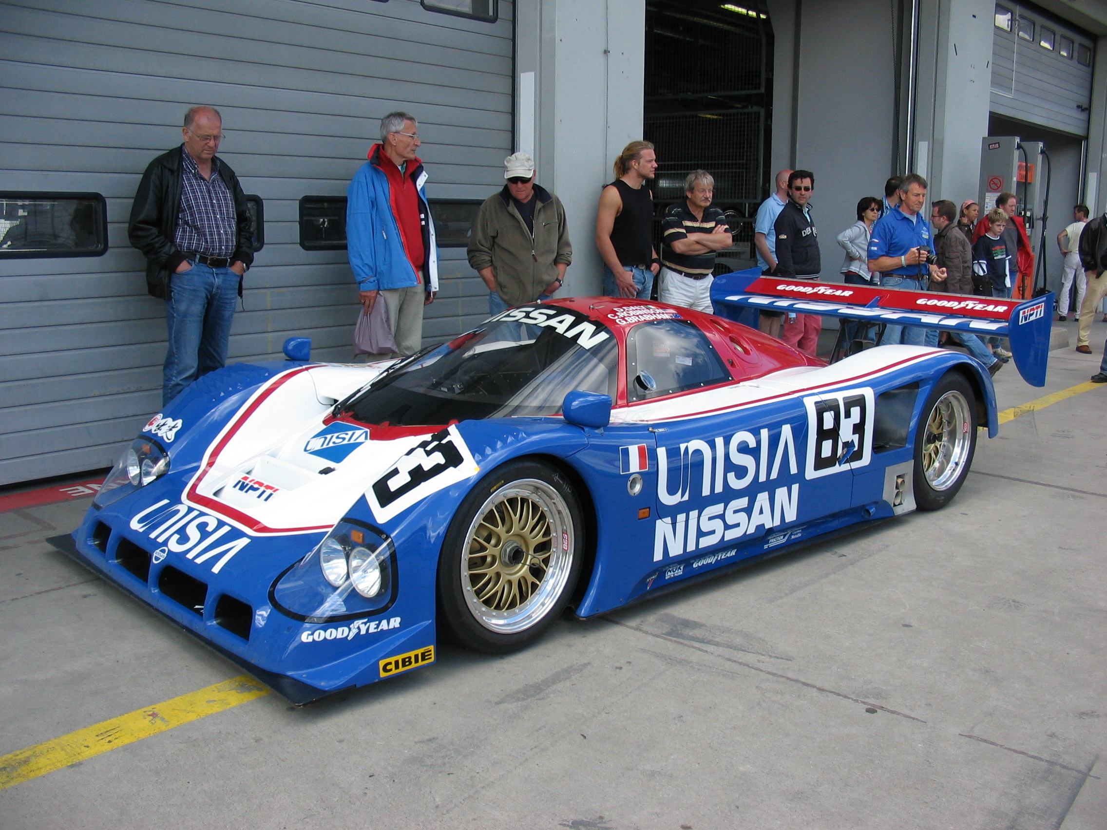 A Nissan R90CK at the DAMC-Oldtimer-Festival at the Nuerburgring